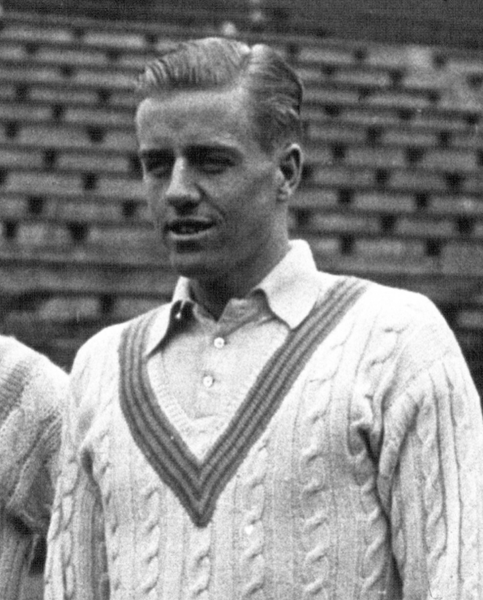 Sidney Wood, American tennis player, Wimbledon singles Tennis champion 1931